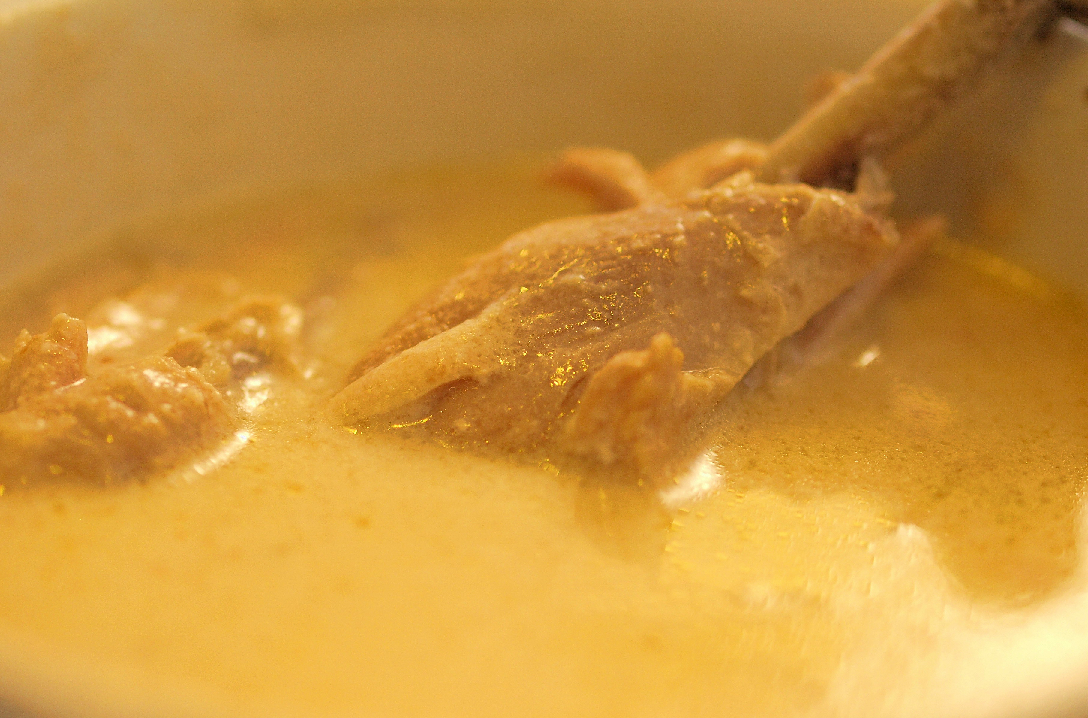 Caril de amendoim (peanut curry), a dish from Mozambique, photographed in Lisboa, Portugal.